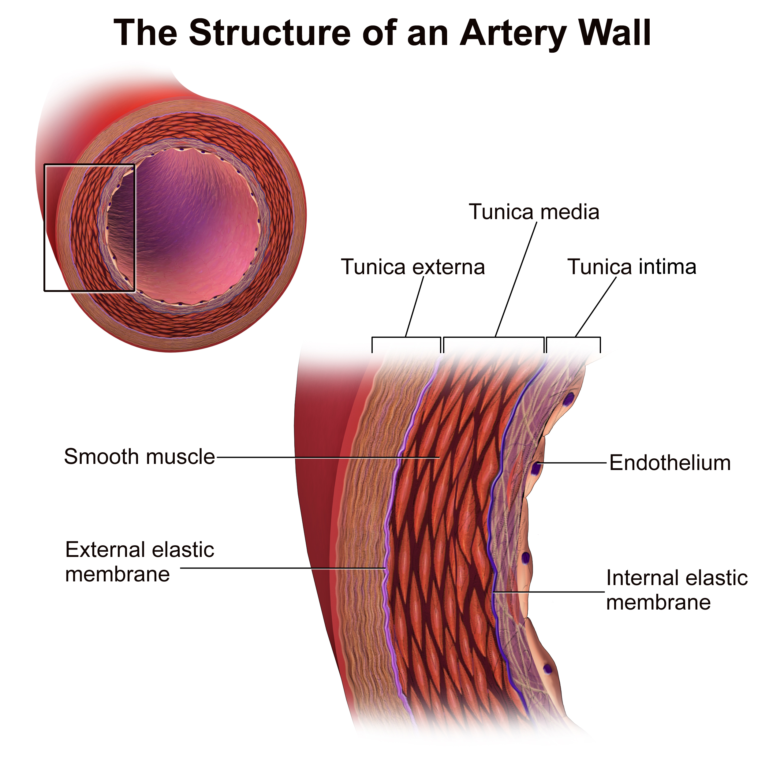 Structure of an Artery Wall. See Tunica intima, Endothelium, Basal lamina vs. Internal elastic lamina, etc. See a full animation of this medical topic.